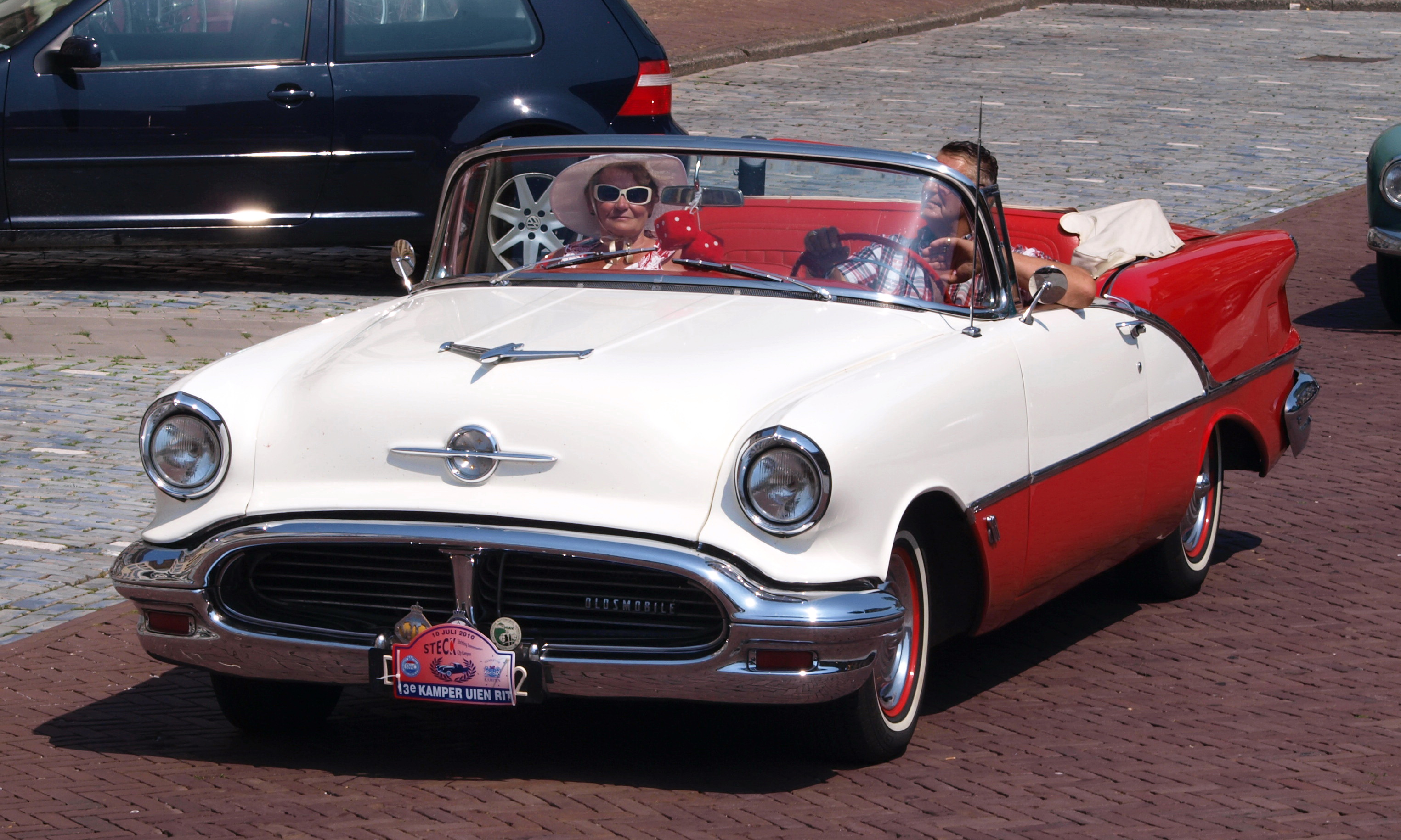 1956 Oldsmobile Super 88 convertible, photographed at Kampen, The Netherlands